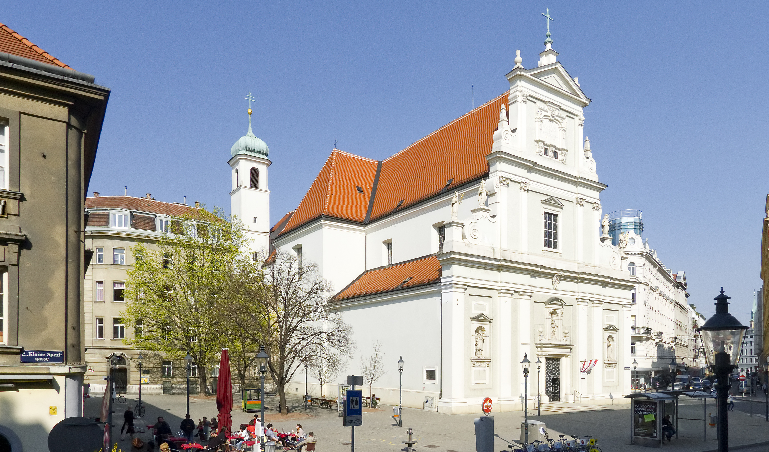 Church Karmeliterkirche (Leopoldstadt) in Vienna 2